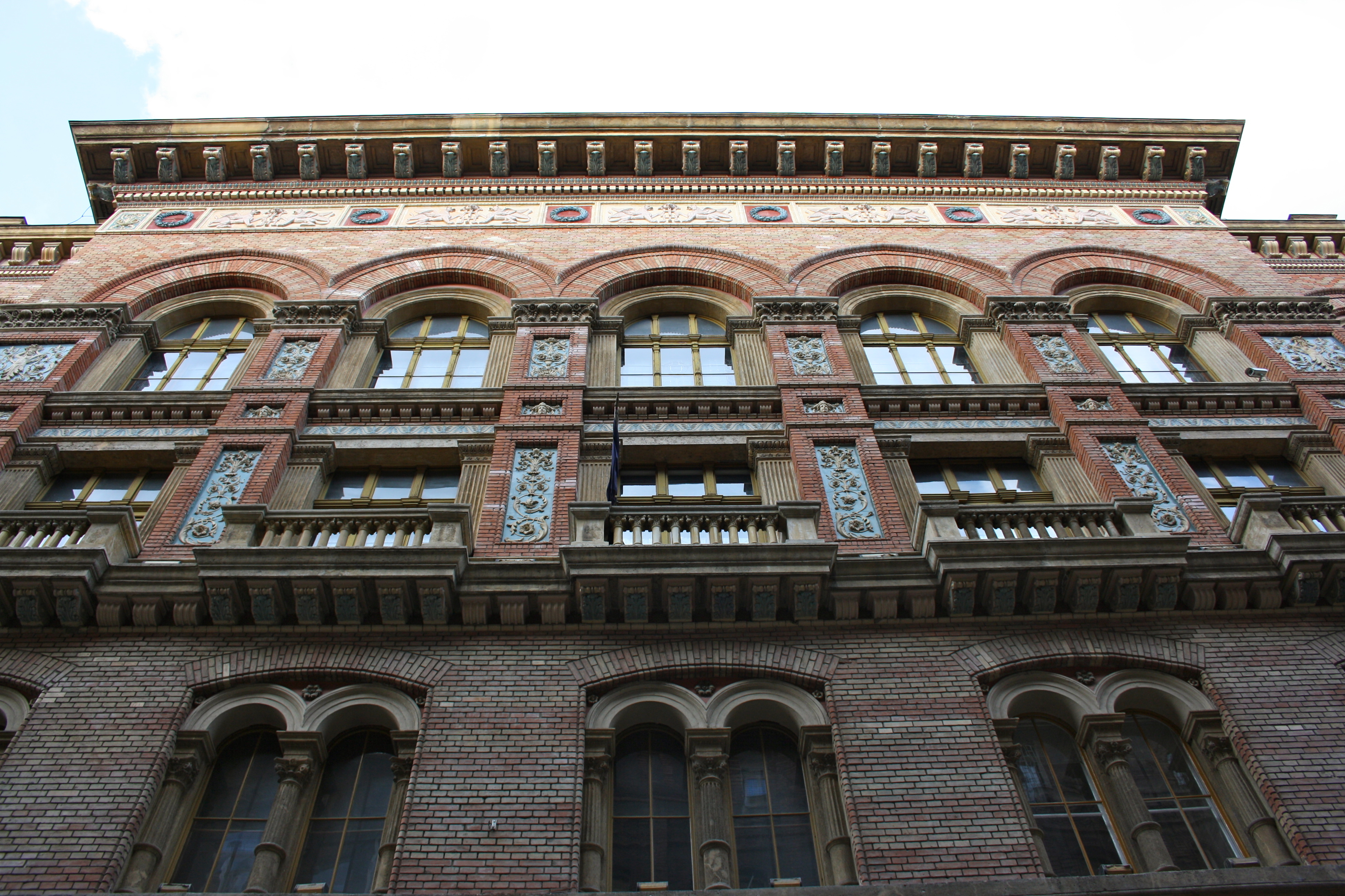 New City Hall, Budapest.